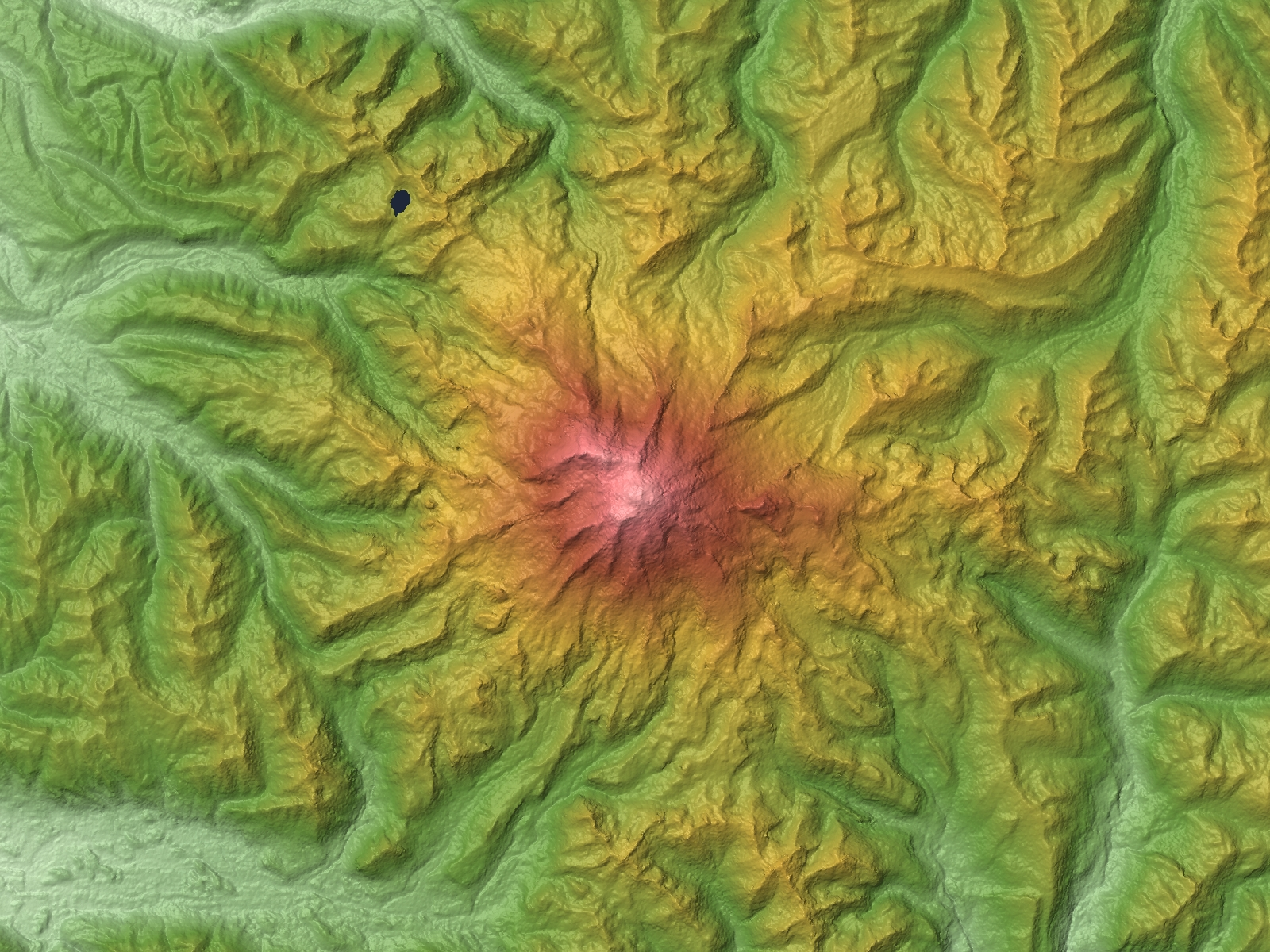 Mount Rainier is a volcano in Washington, USA.